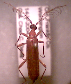 Dendroides concolor, Worthington, Franklin County, Ohio, USA